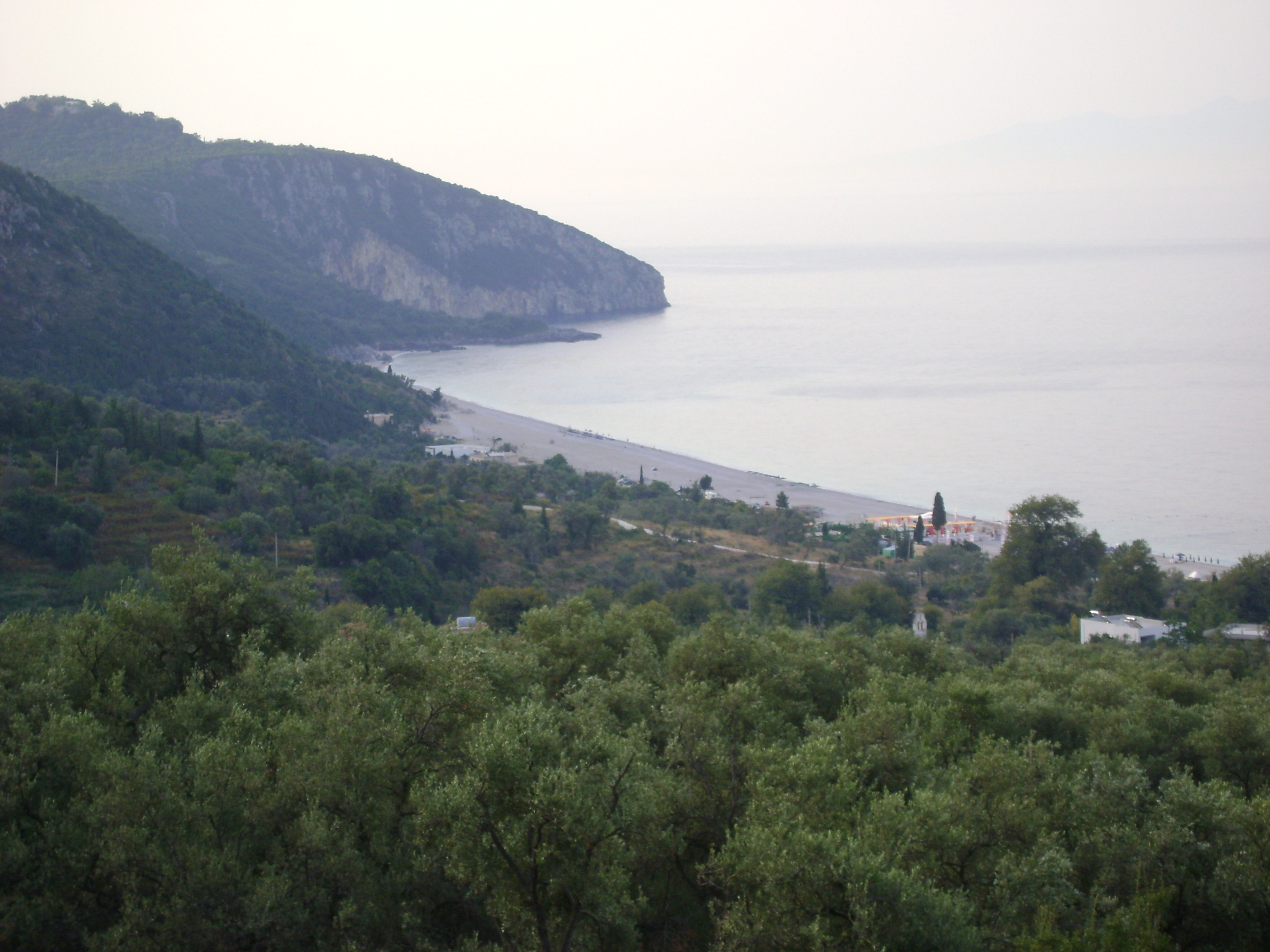 Beach of Dhërmi in Albania at early morning